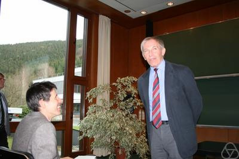 Manfred Feilmeier, with Laszlo Szekelyhidi (sitting), Oberwolfach 2011 (Oberwolfach Prize 2011 Ceremony)